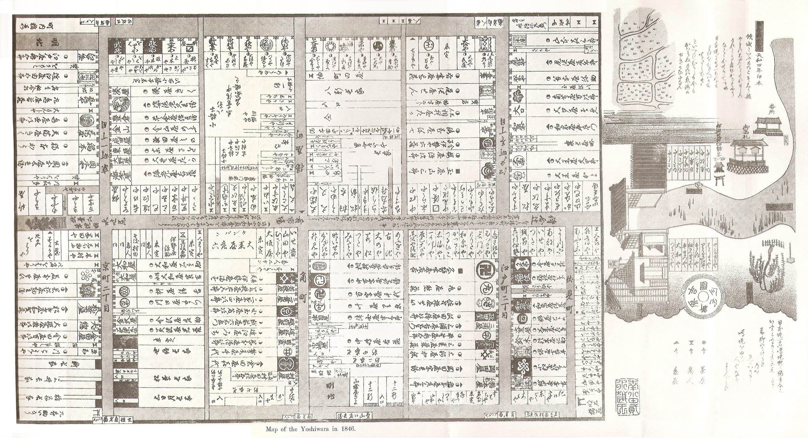 Map of Edo's Yoshiwara redlight district in 1846.